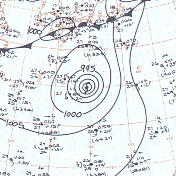 Surface weather analysis of Typhoon Polly at 12Z on June 3, 1963.